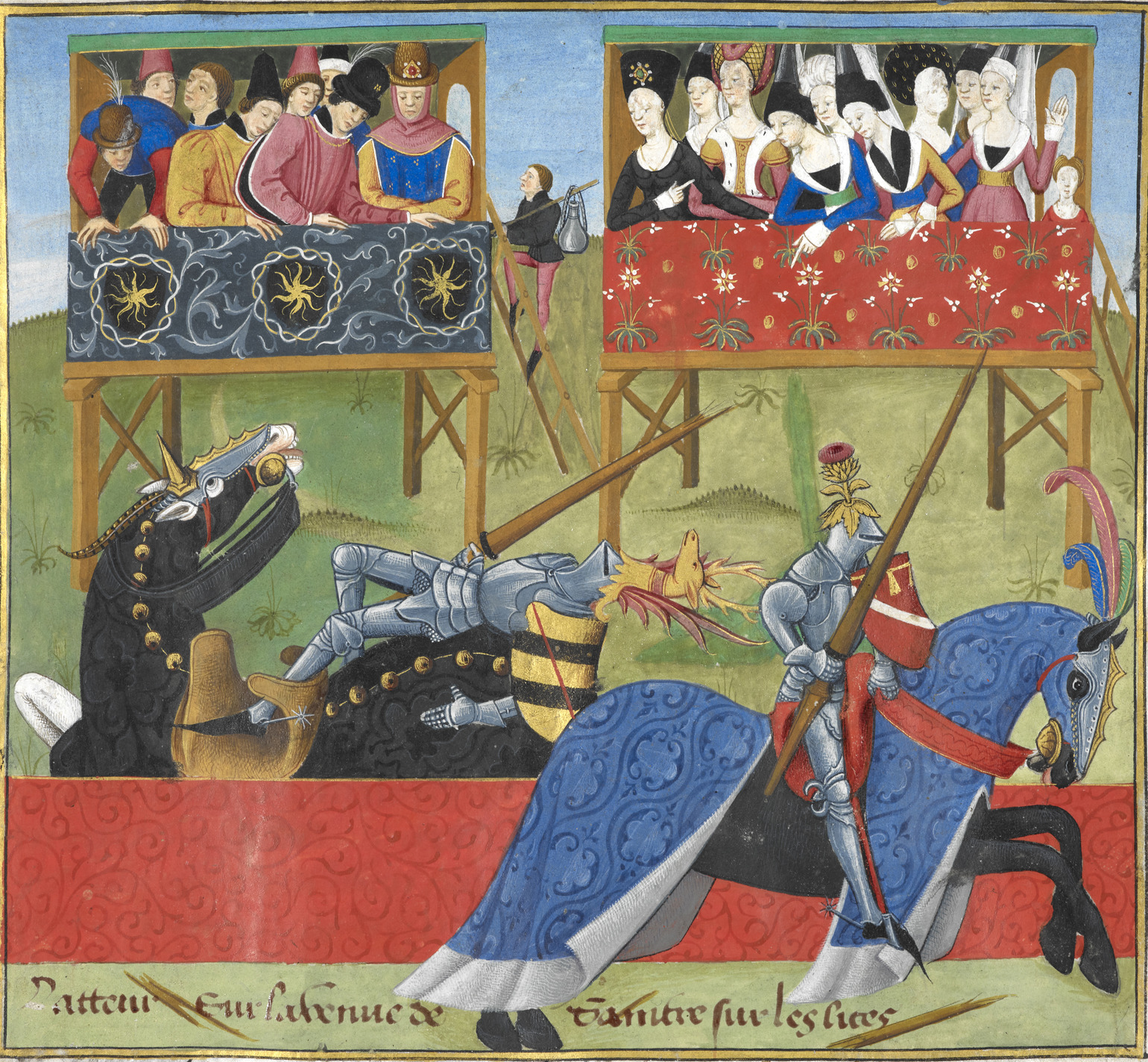 [Miniature] Jean de Saintré jousts with the Spanish knight, Enguerrant, at a tournament.